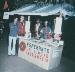 toldo de San Alejo